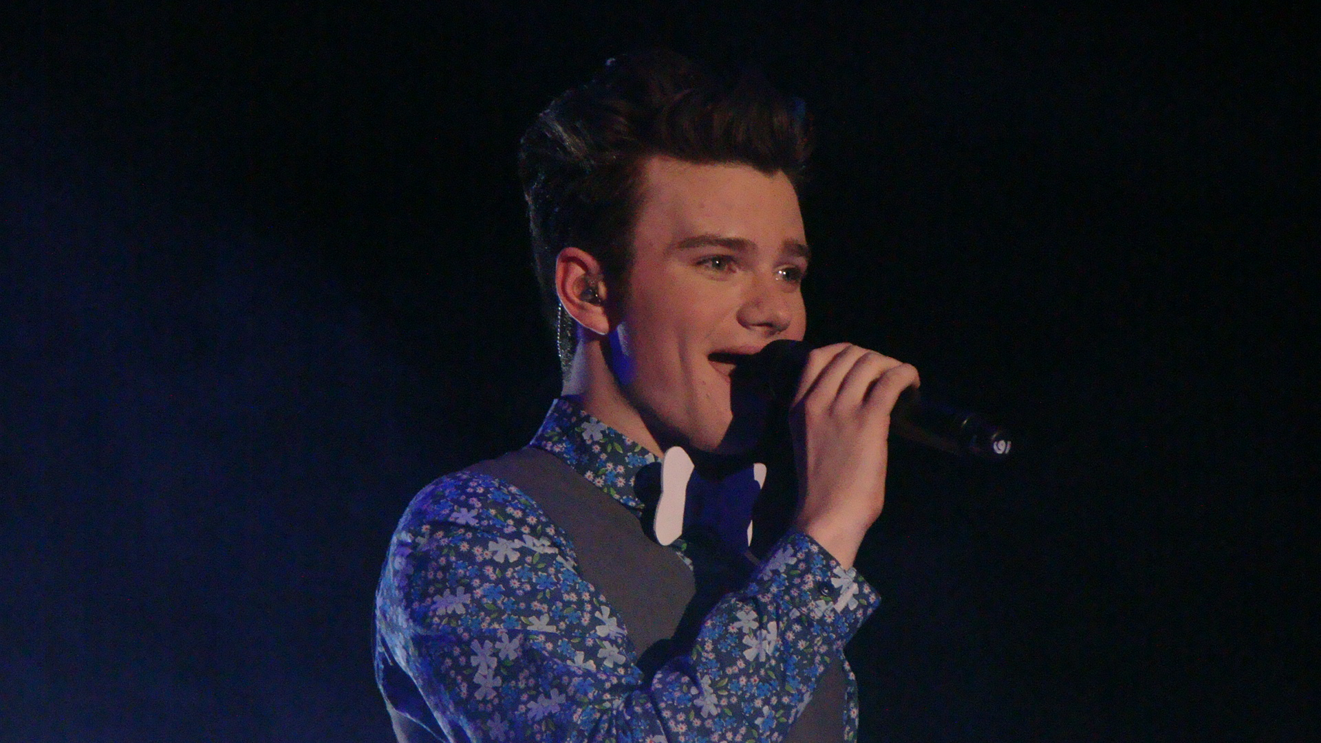 I Wanna Hold Your Hand